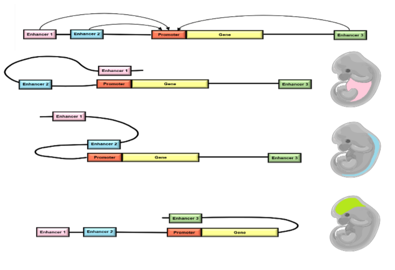 a gene with 3 enhancers.